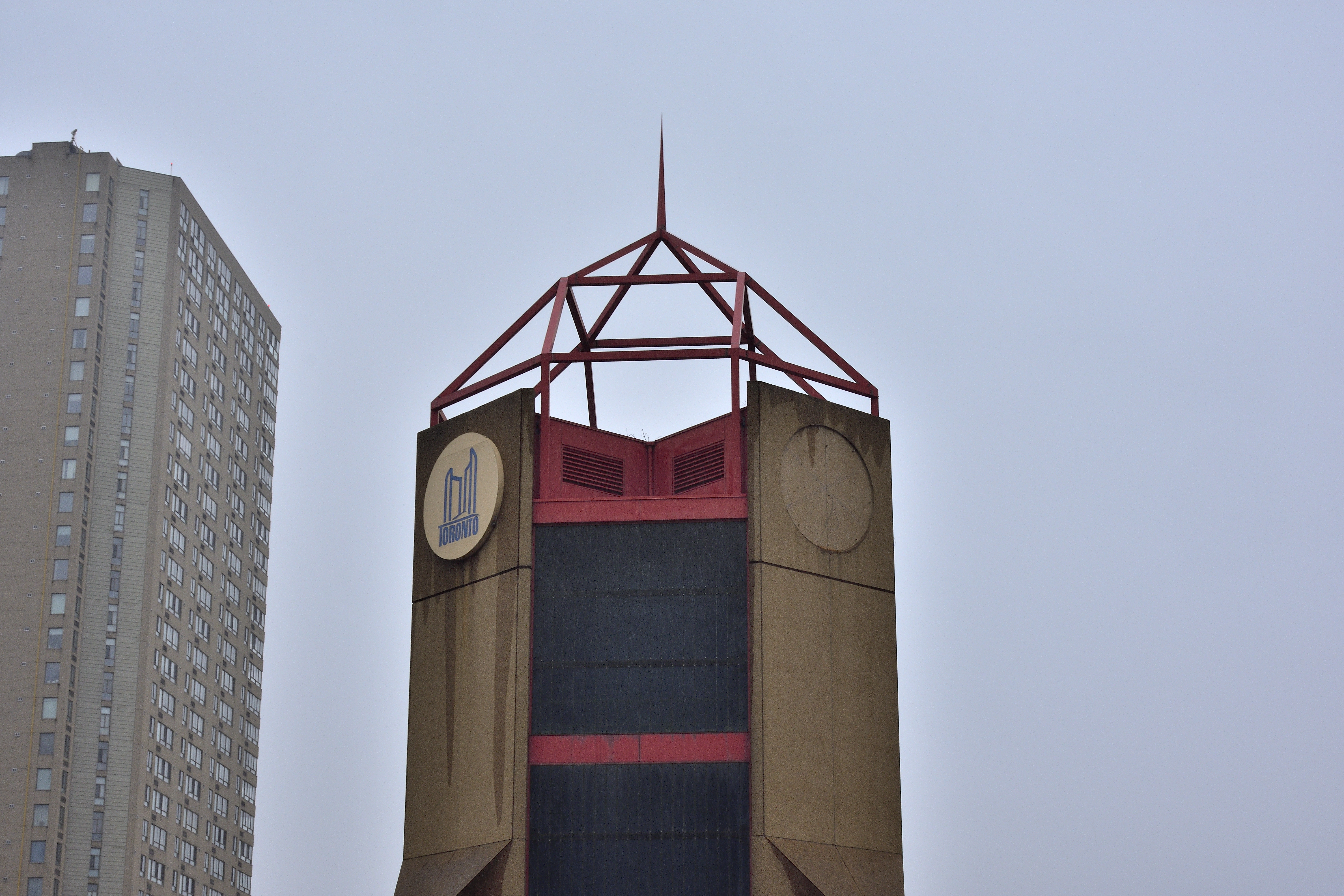 John Street Pumping Station within Downtown Toronto